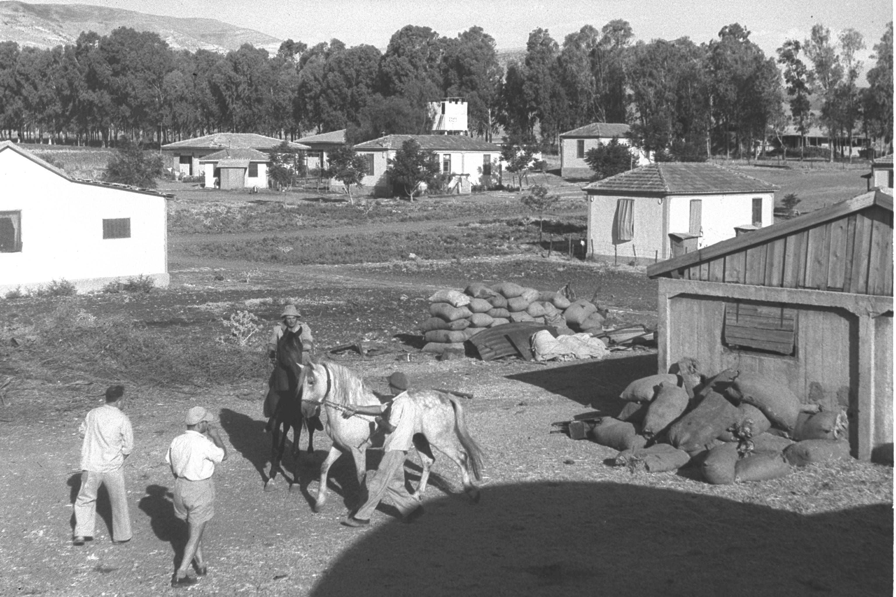 Kibbutz Mahanaim.